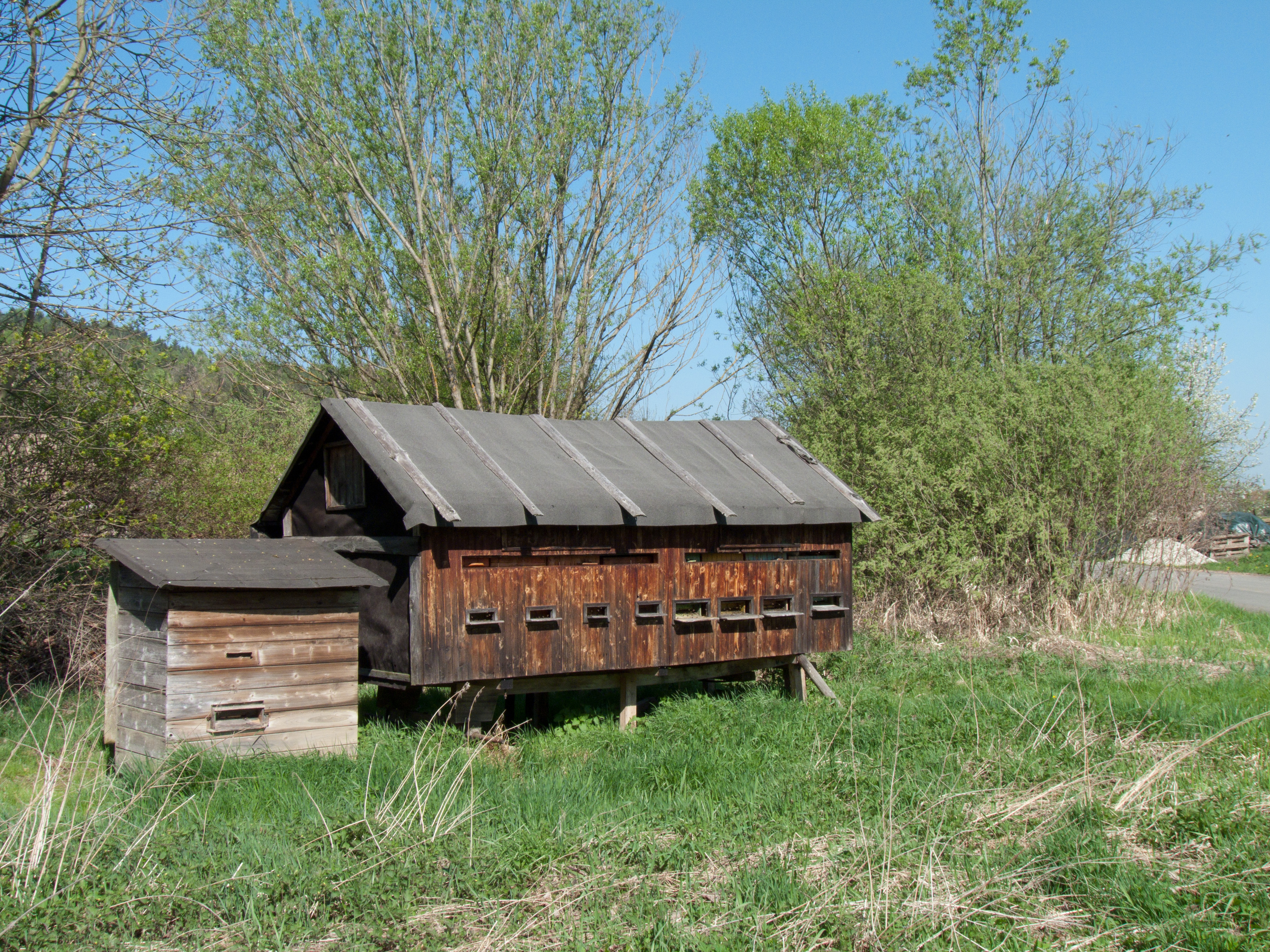 Beehives in the village of Kuřimany, Strakonice District, Czech Republic.